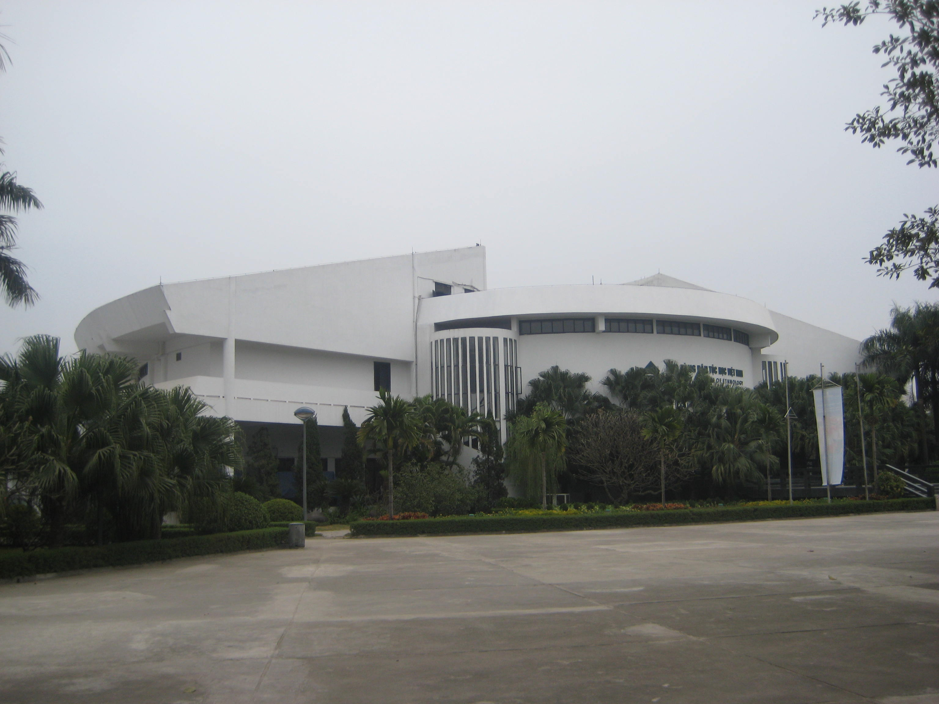 Trống Đồng building, Vietnam Museum of Ethnology